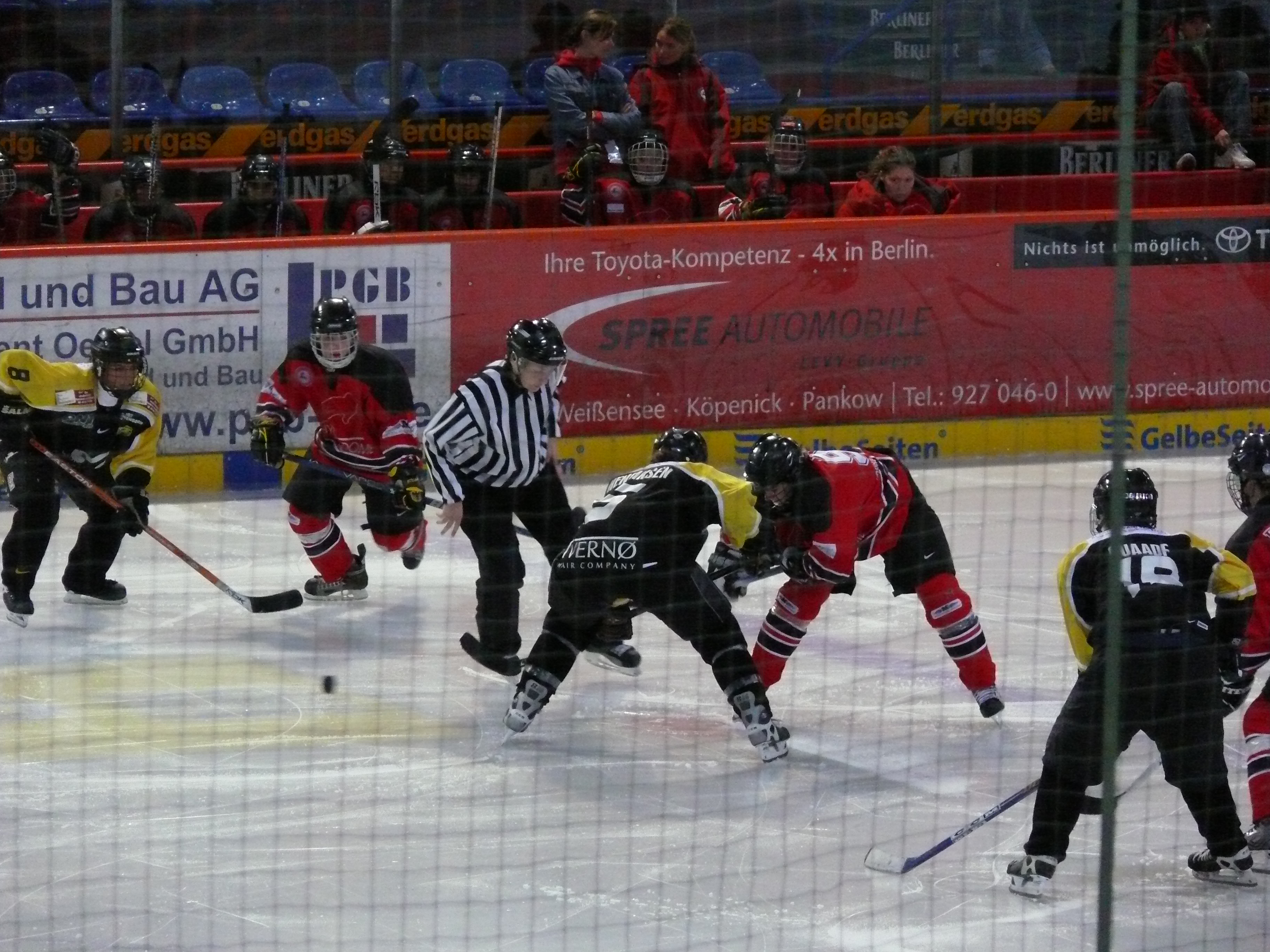 IIHF European Women Champions Cup 2007 - first round in Berlin Oktober, 6th-8th 2006 Women's ice hockey Game of OSC Berlin vs. Herlev Hornets at the IIHF European Women Champions Cup 2007